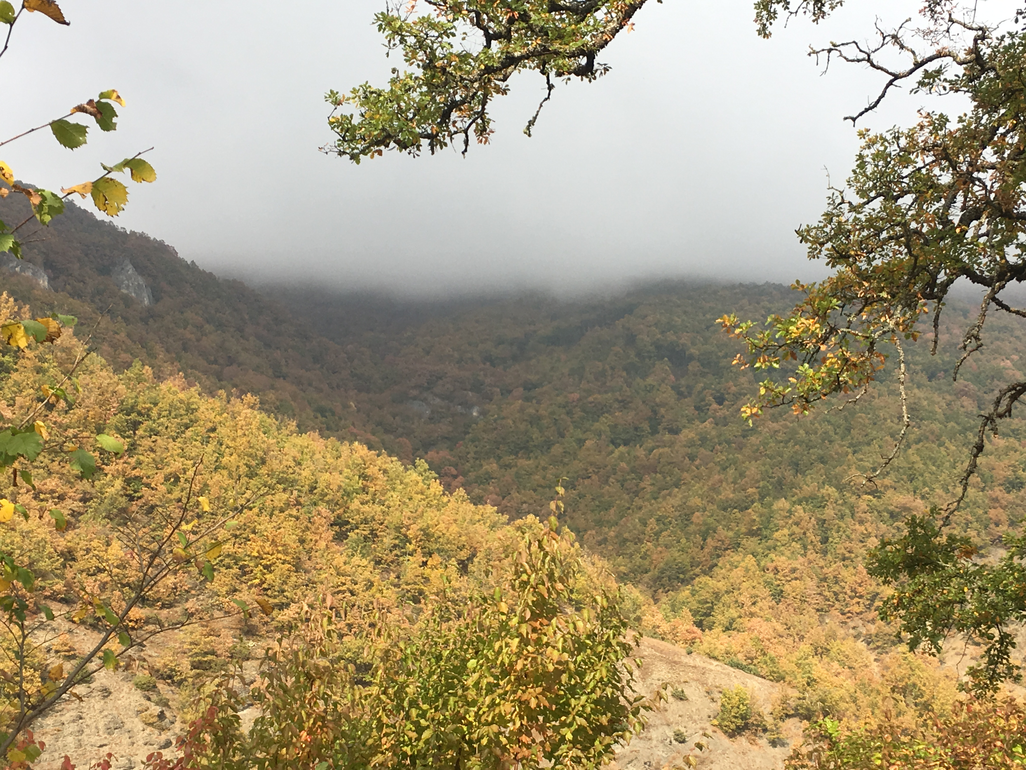 Wikiexpedition to Kopačka